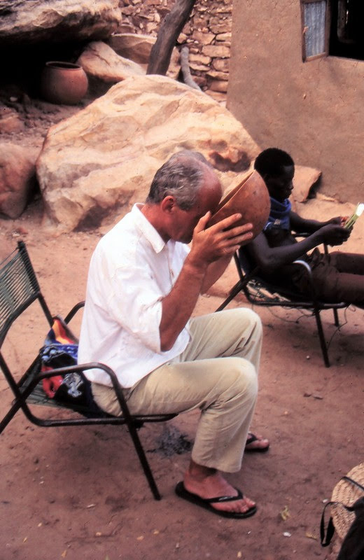 Film maker Nigel Randell Evans (documentary "The African King (1990)") enjoys a beer, Tireli, Mali 1990